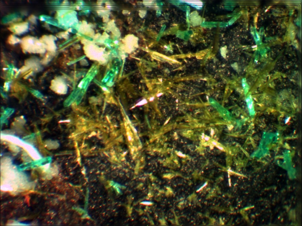 Antigorite, Dioptase Locality: Blue Bell Mine (Blue Bell claims; Hard Luck Mine; Hard Luck claims; Atkinson), Baker, Soda Lake Mts, San Bernardino Co., California, USA Original description: Vauquelinite and Dioptase. specimen dimension is 21CM X9CM, field of view is 5mm. taken with a Variscope using Helicon Focus.